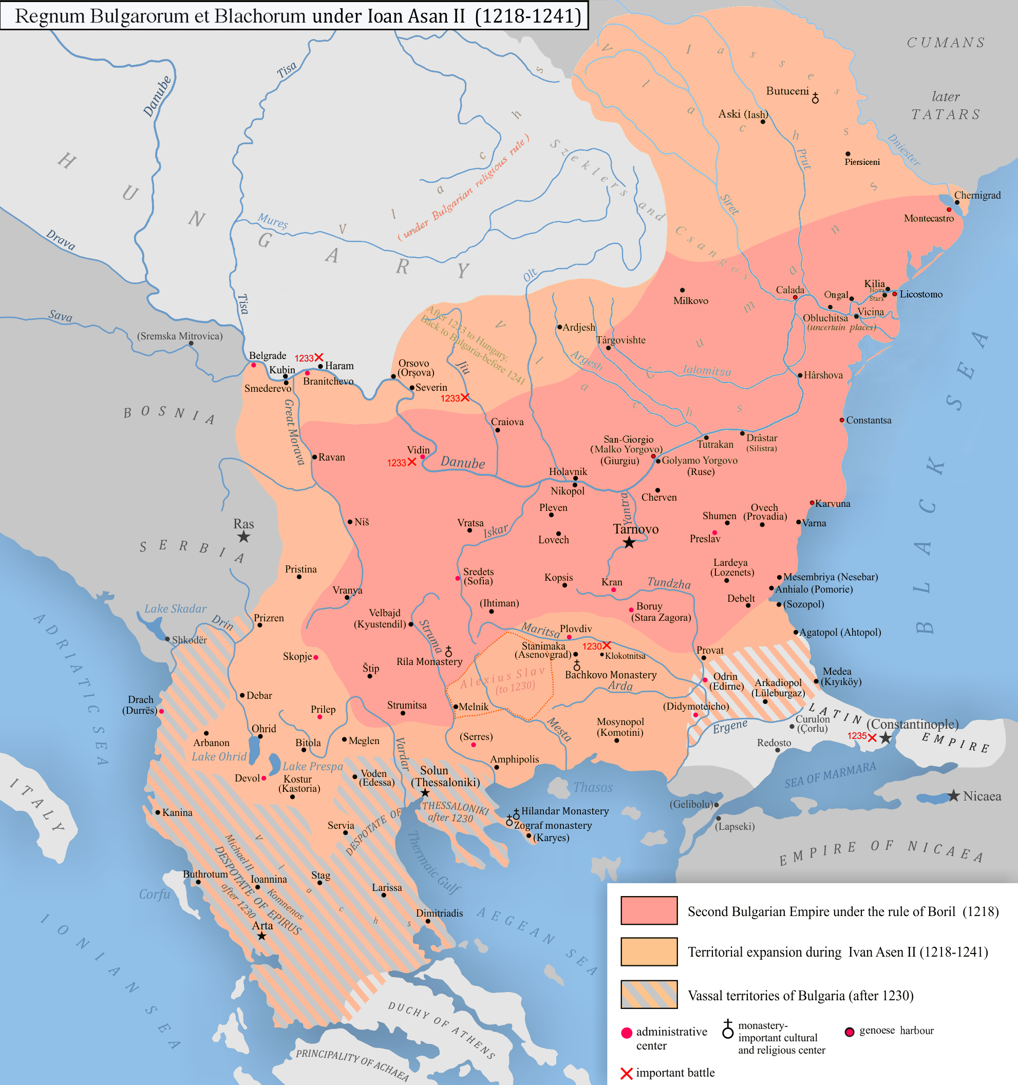 Bulgaria under tsar Ivan Asen II